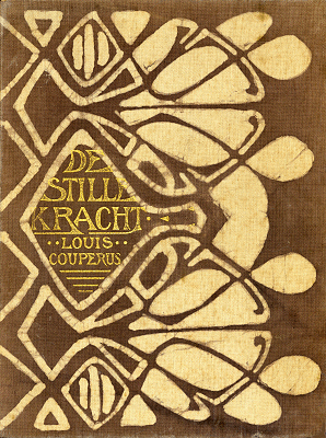 Design book cover of the Dutch colonial novel De Stille Kracht by Louis Couperus (1900).